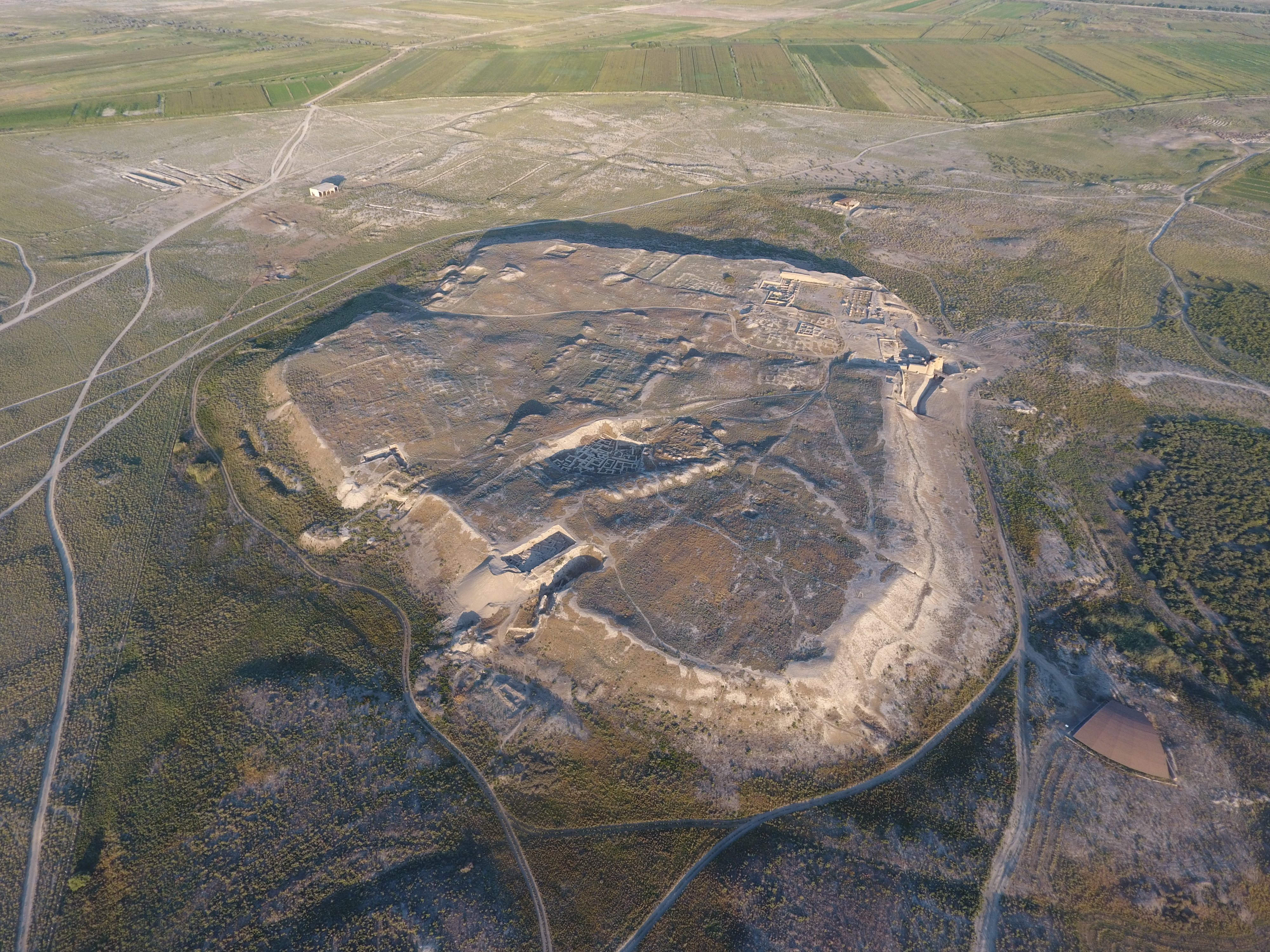 Aerial view of Otrar, taken in August 2018. Author: Mikhail Gurulev (Михаил Гурулев) of Archaeological Expertise.